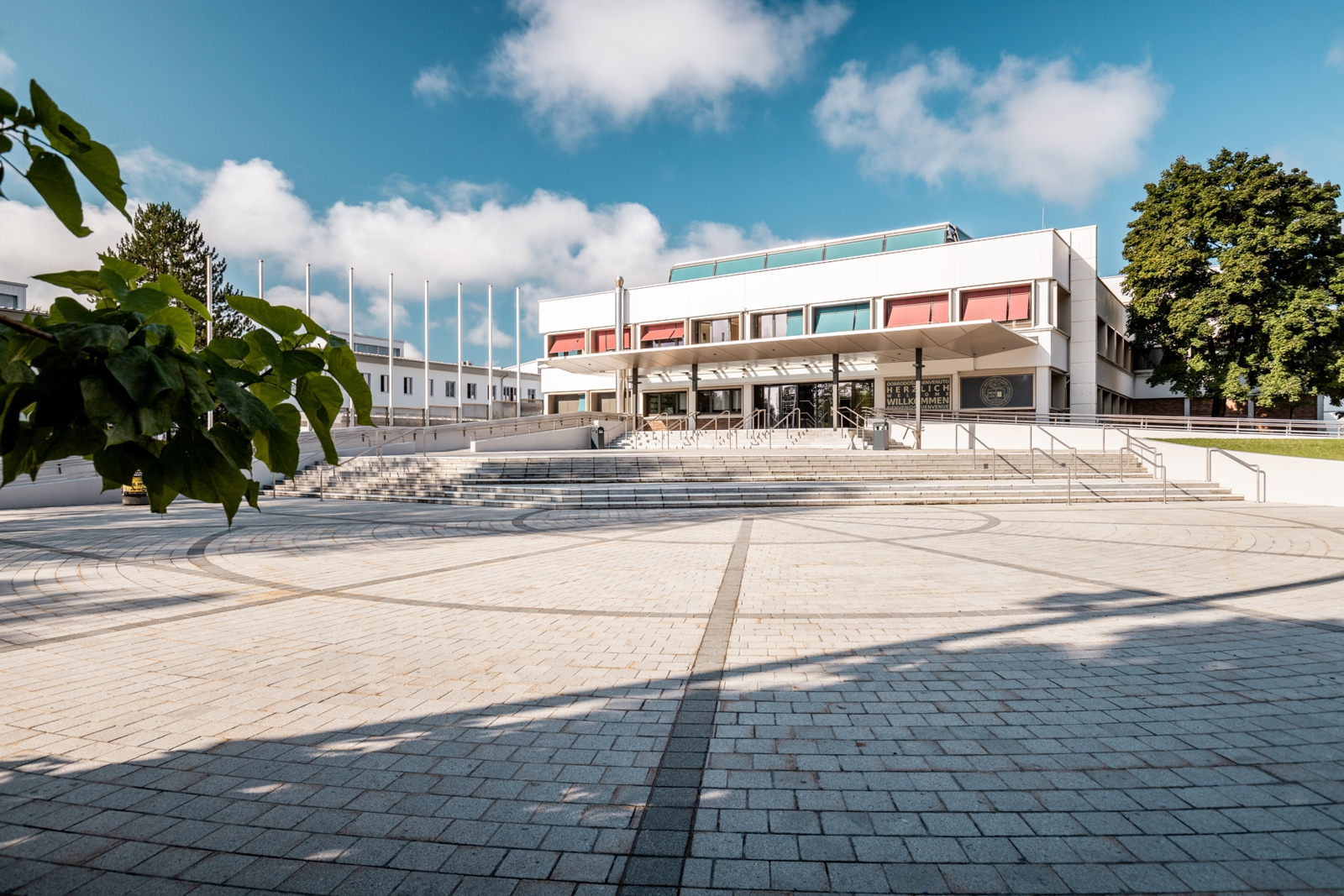 University of Klagenfurt: main entrance (view of the main building across the forecourt)